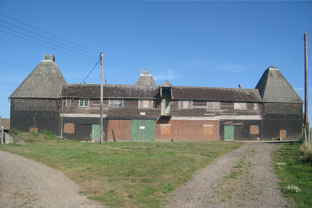 Unconverted Oast House at Luddenham Court Farm, Luddenham, Kent Triple square kiln oast house.